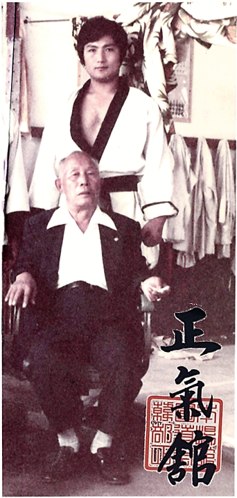 Hapkido doju & GM Lim at Jungkikwan Аҧсшәа: 합기도 최용술 도주와 임현수 총사